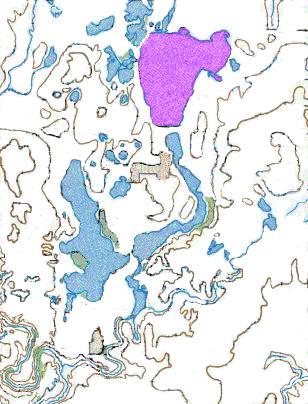 Spirit Lake in the Iowa Great Lakes region. Based on original public domain map courtesy of USGS. © 2004 Matthew Trump .